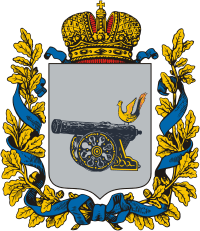 Smolensk gubernia (Russian empire), coat of arms